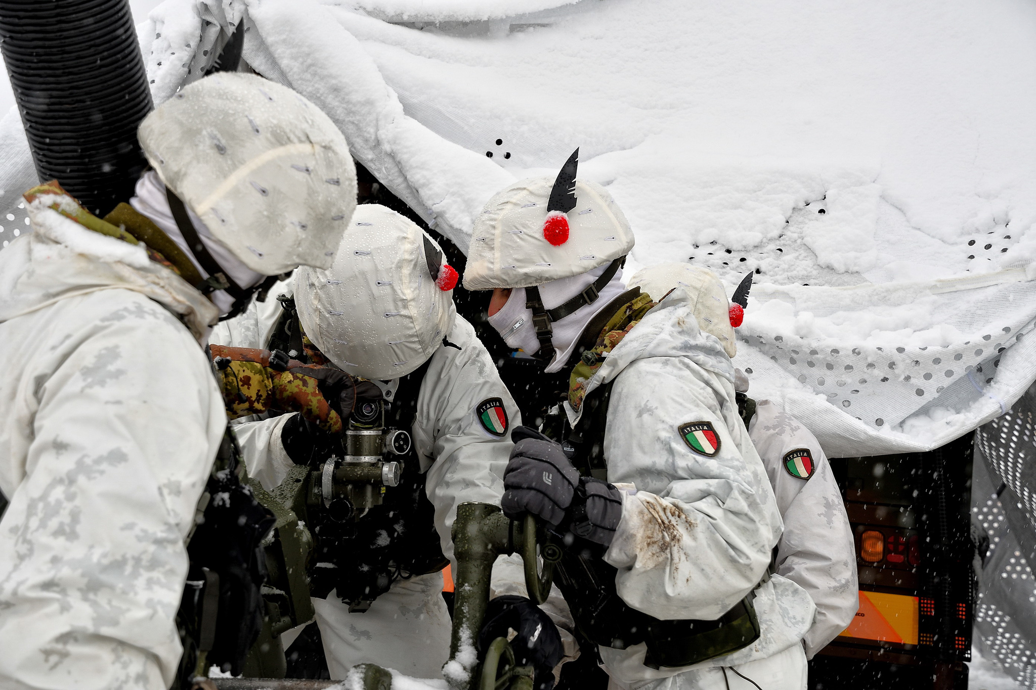 Italian Army 8th Alpini Regiment soldiers align a 120mm mortar during exercise Abbey Road 2019